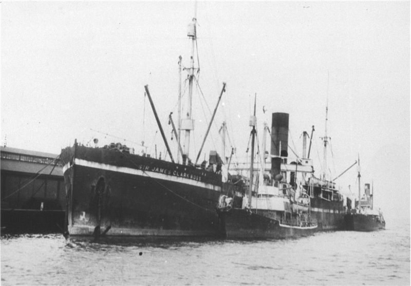 Norwegian whaling factory Sir James Clark Ross (I), ex. Mahronda (1905), at Hobart Wharf with 2 chasers.